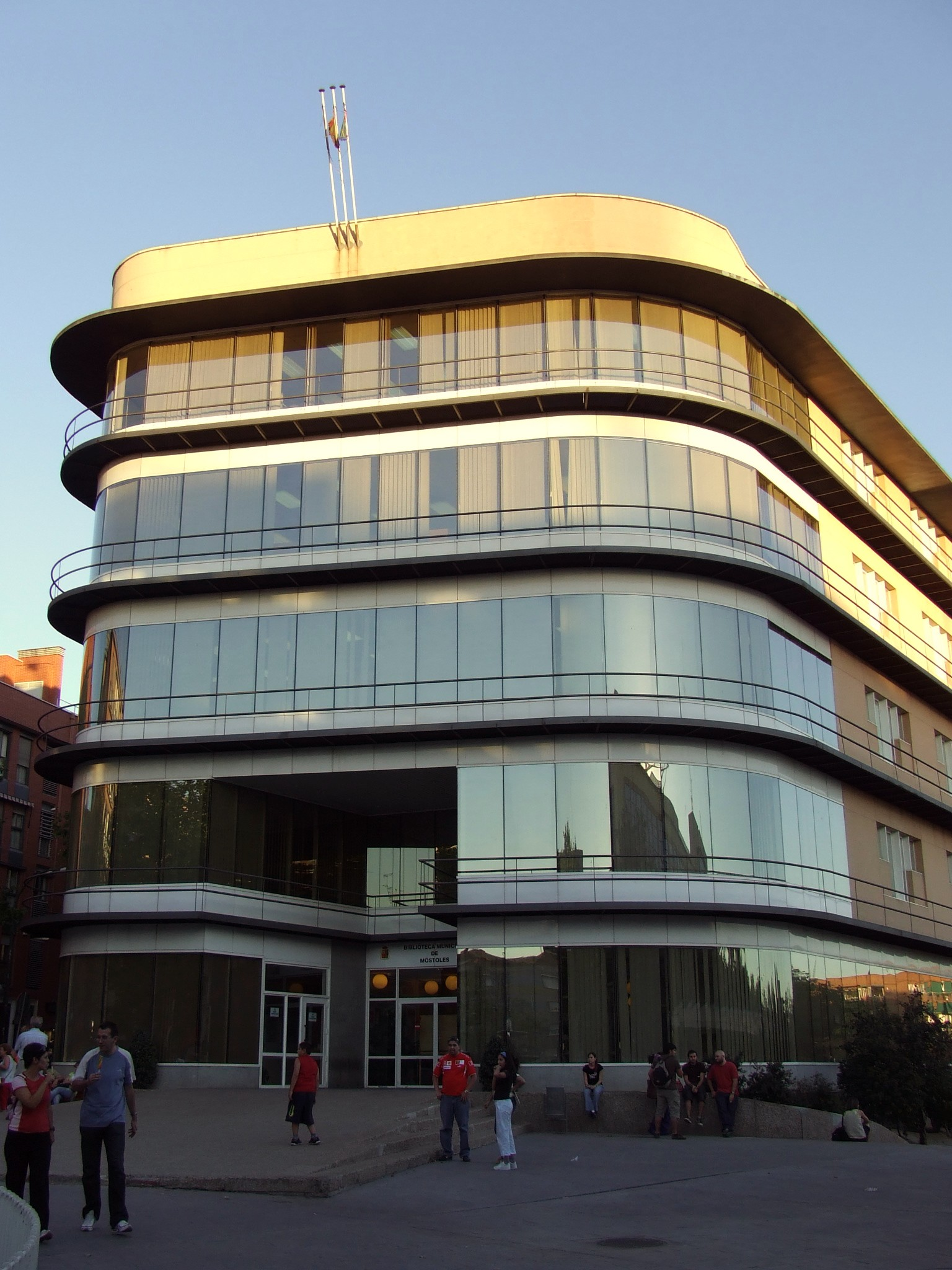 Móstoles is an autonomous community of the city Madrid in Spain.